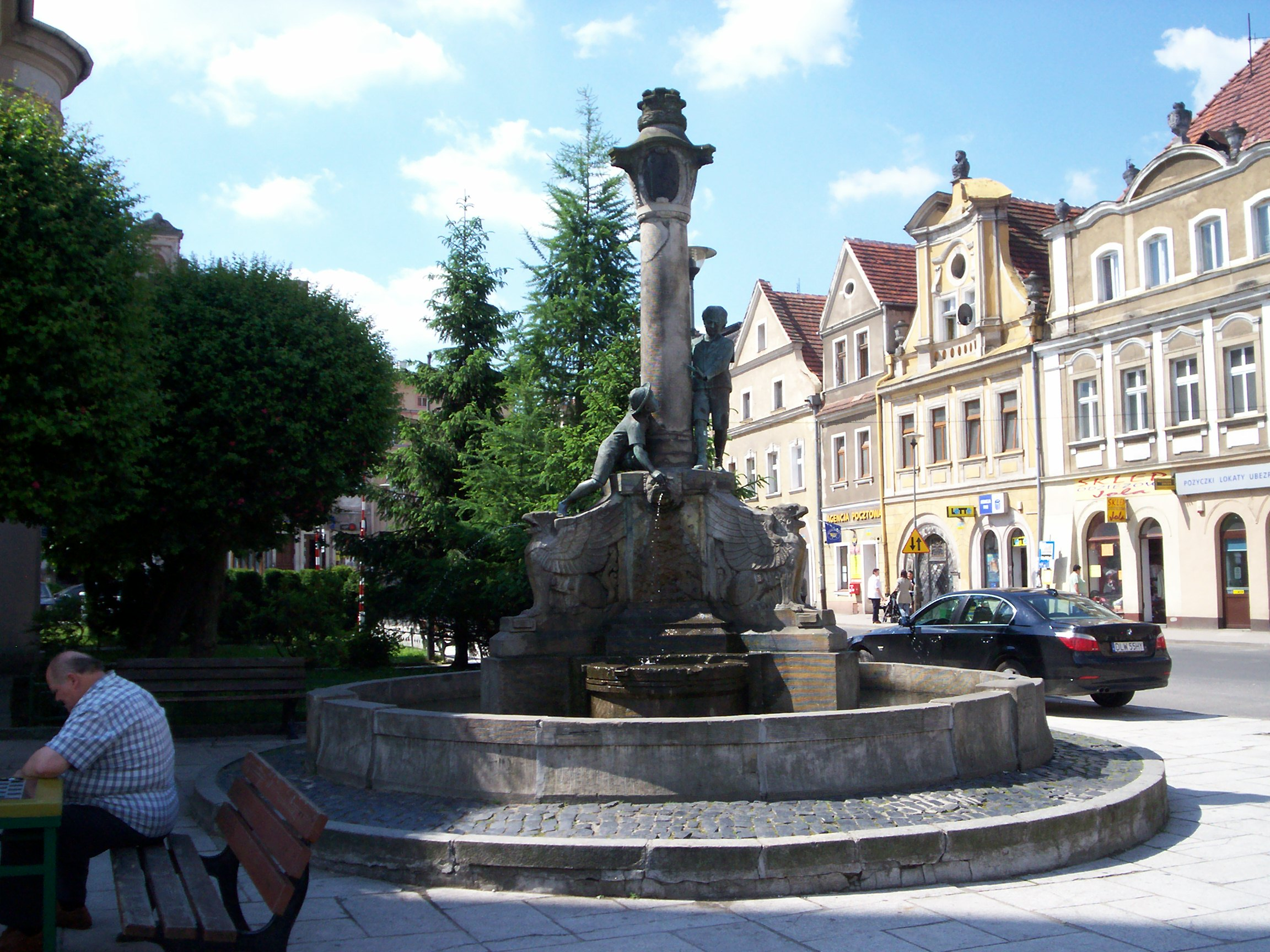 Fountain in Gryfów Śląski.